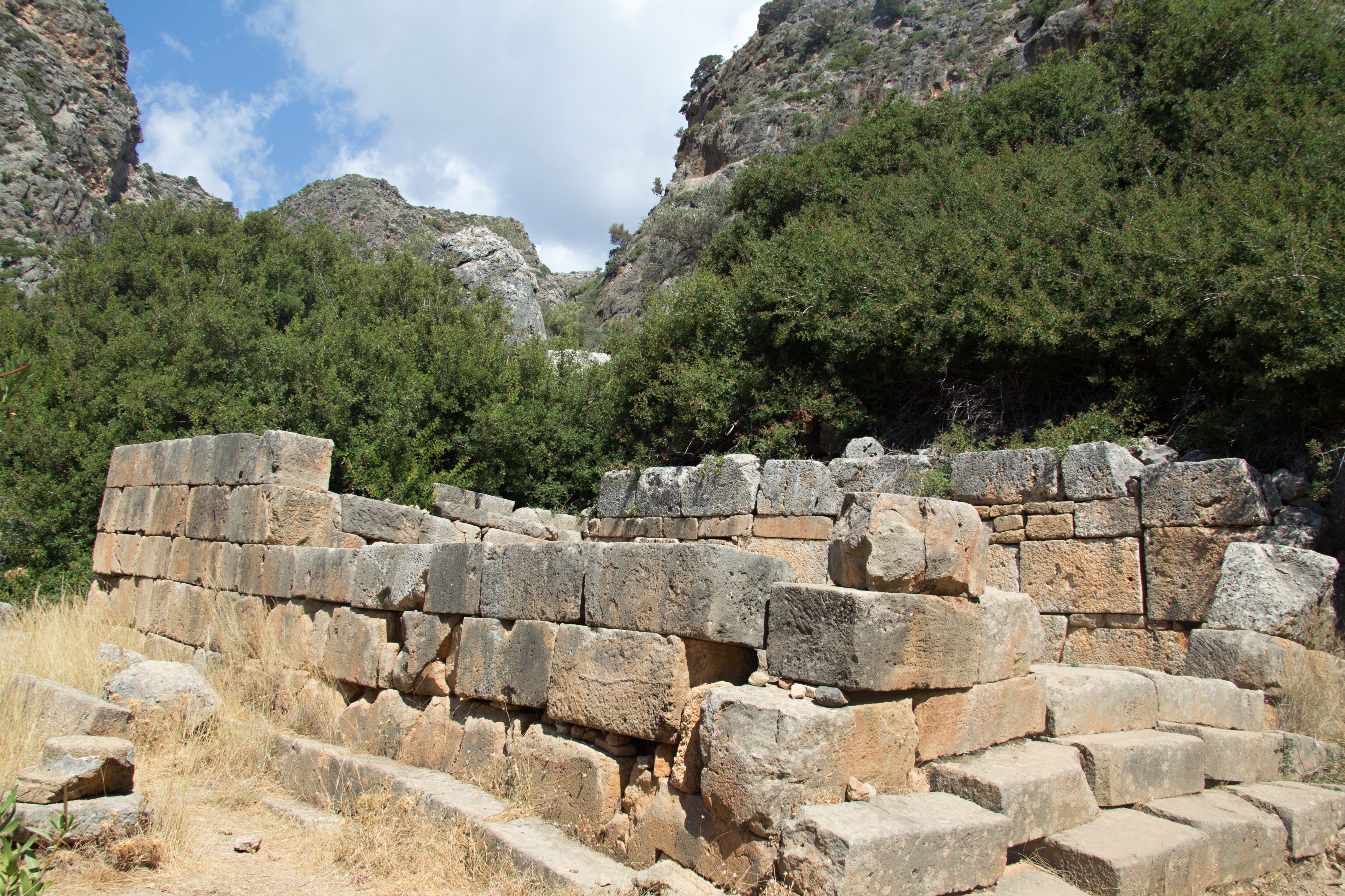 The temple of Asclepius (Asklepios). Small Doric building, 3rd century BC. Lissos, Crete. Inscriptions and mosaic floor added during the Roman times. During the early Christian period an attempt to purify the temple has been made: sign of the cross were engraved on the masonry. It had been crushed by enormous rocks, probably because of a strong earthquake.